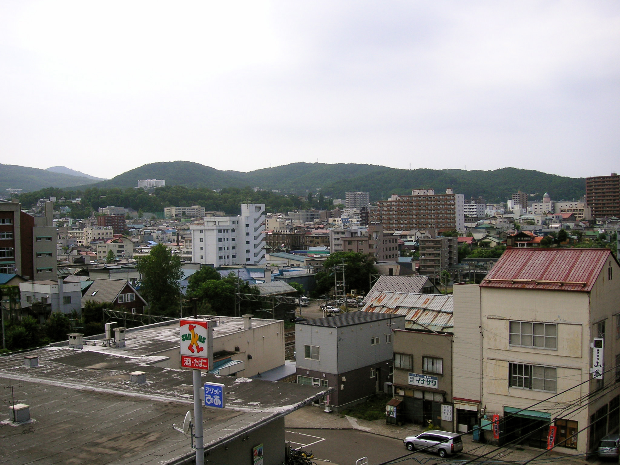 A section of the skyline of Otaru, Hokkaido, Japan in August, 2006. Photograph by Causality-GT